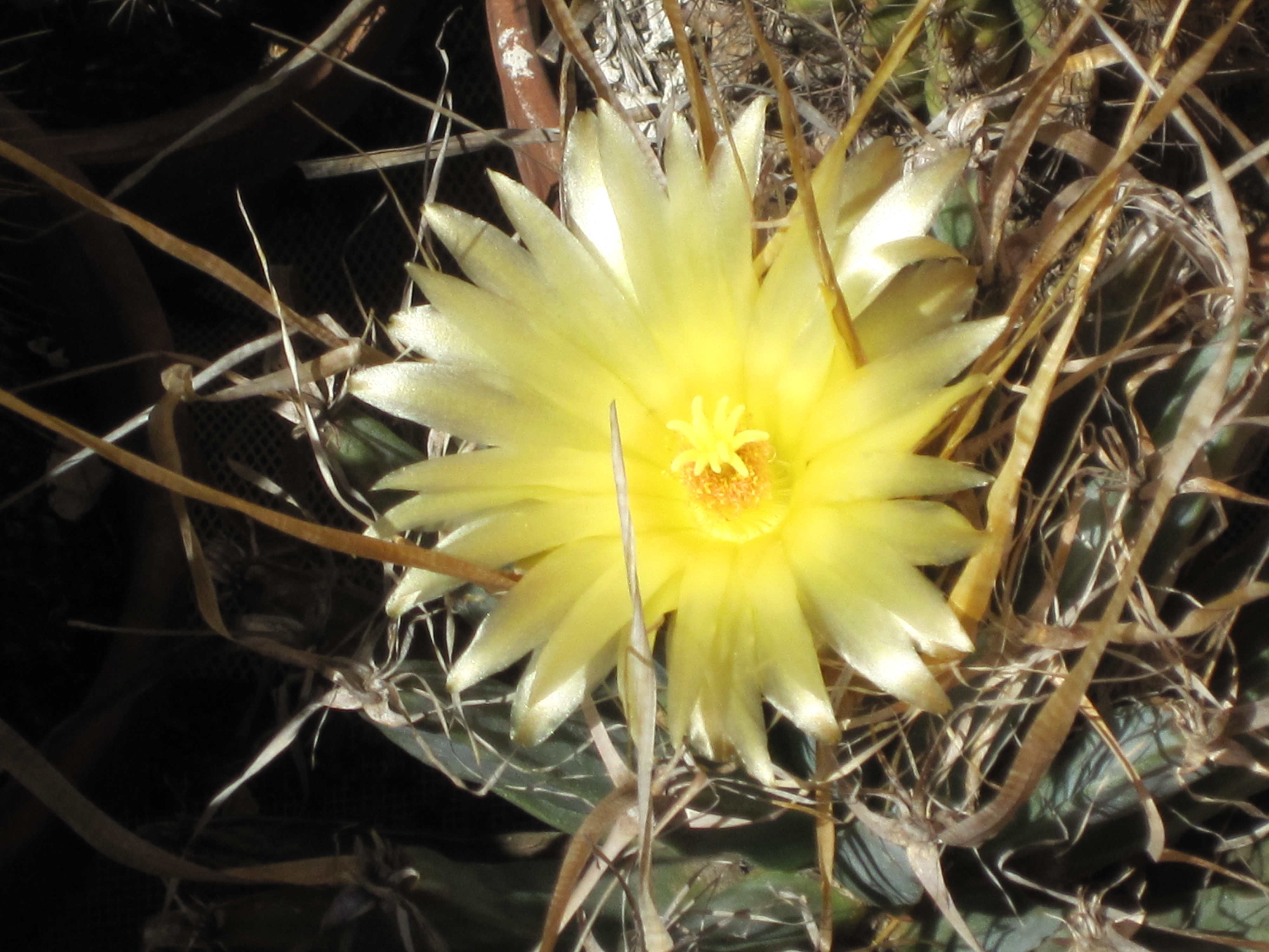 Leuchtembergia principis in flower